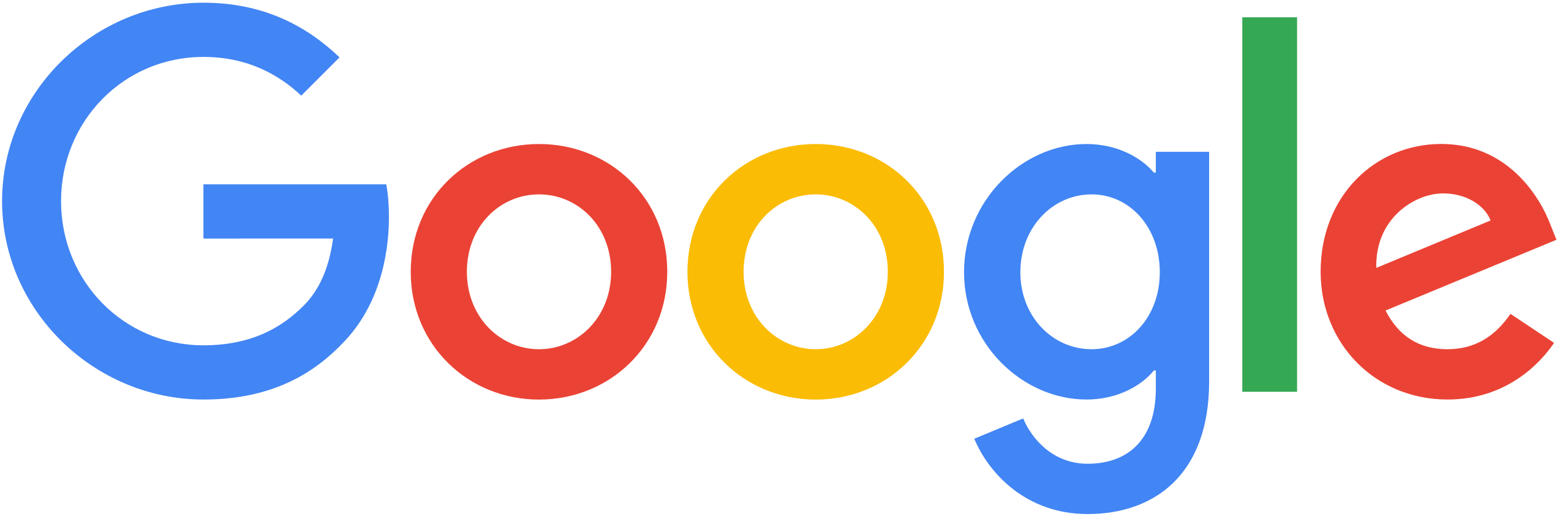 Multicoloured text reading "Google".